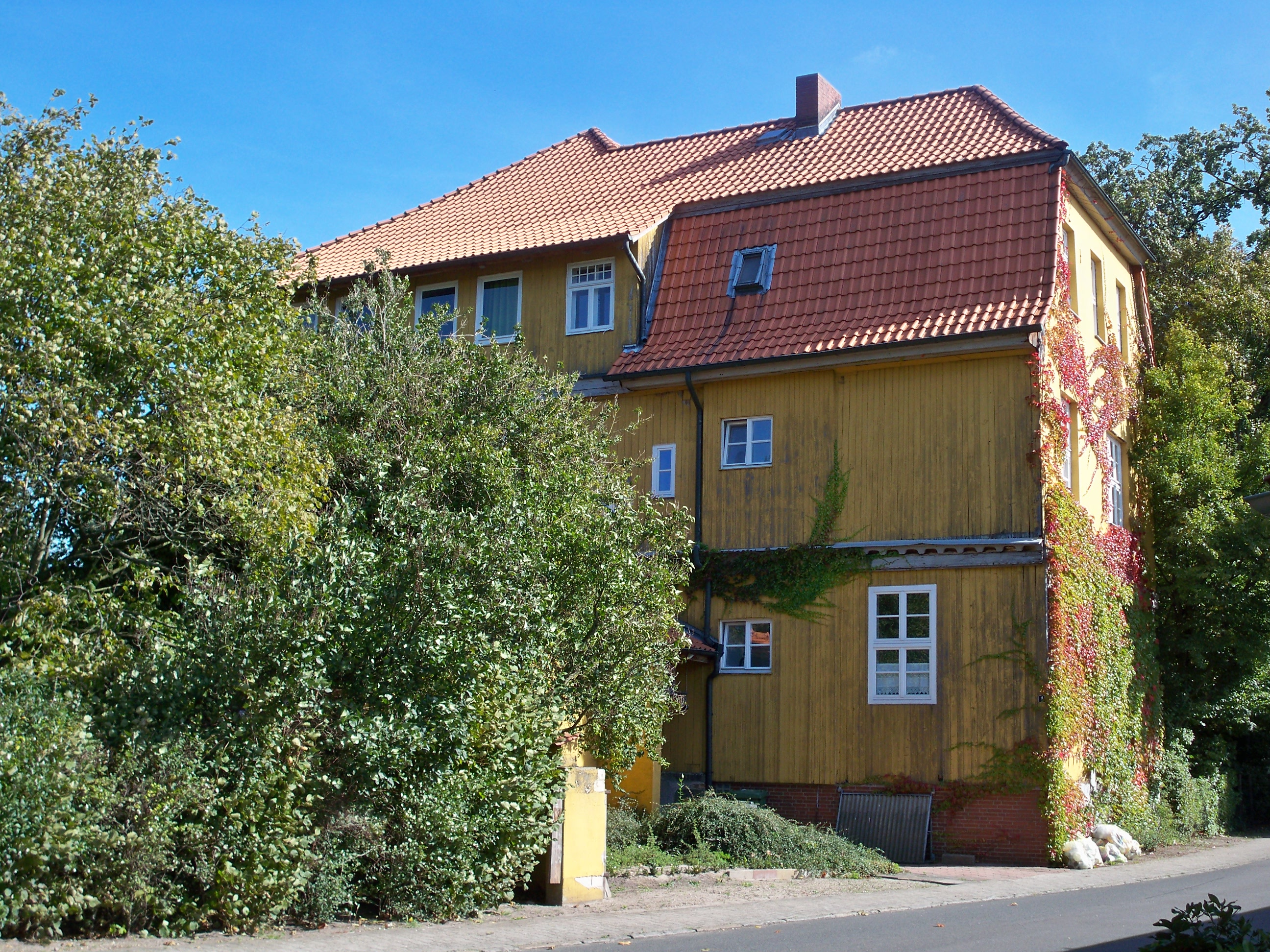 Tülau-Fahrenhorst, Lower Saxony, house in Fahrenhorst, built in 1737